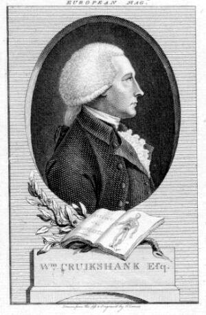 William Cruickshank, † 1811, an English chemist